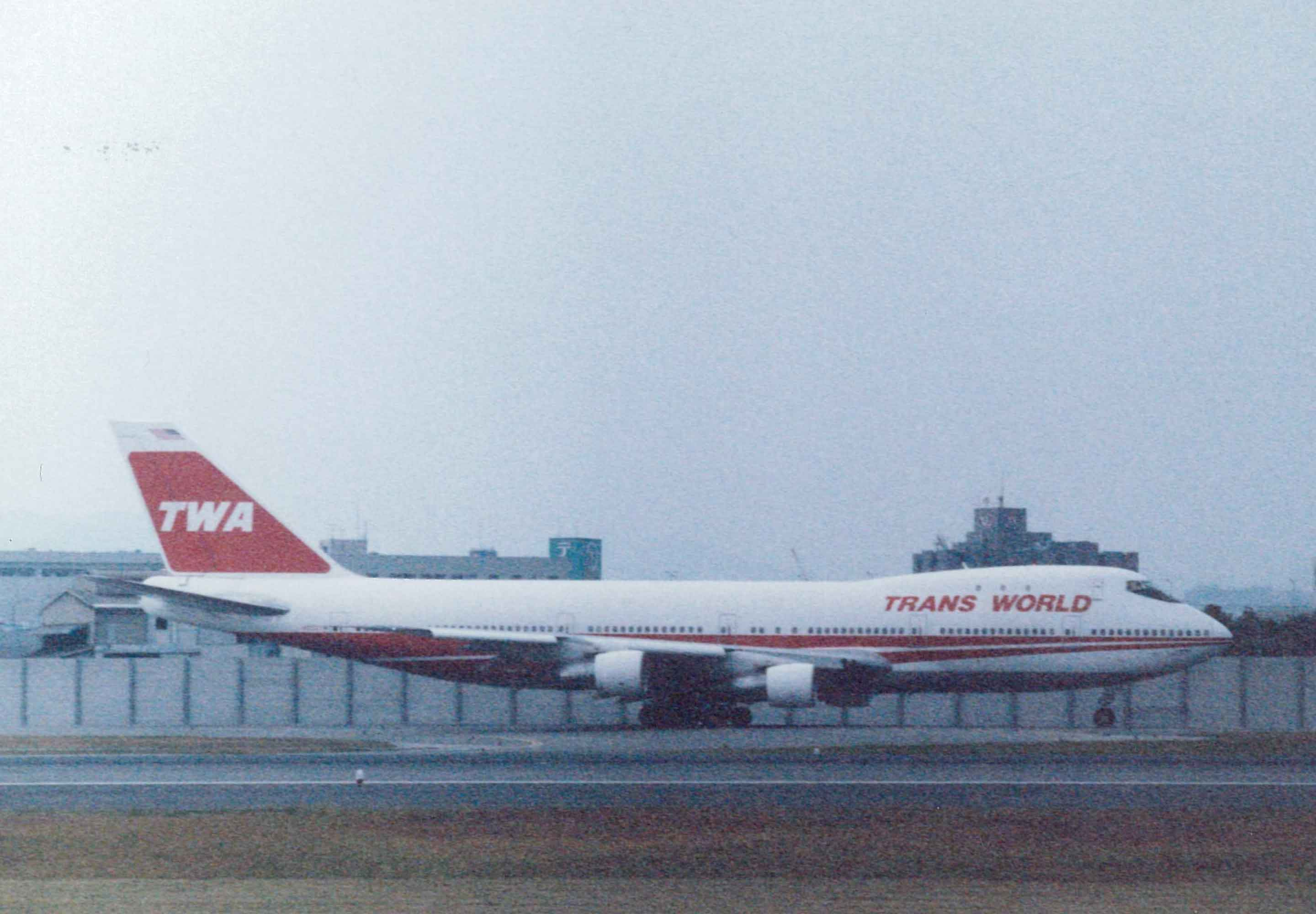 It is Airliners which it photographed in Itami, Osaka Airport.